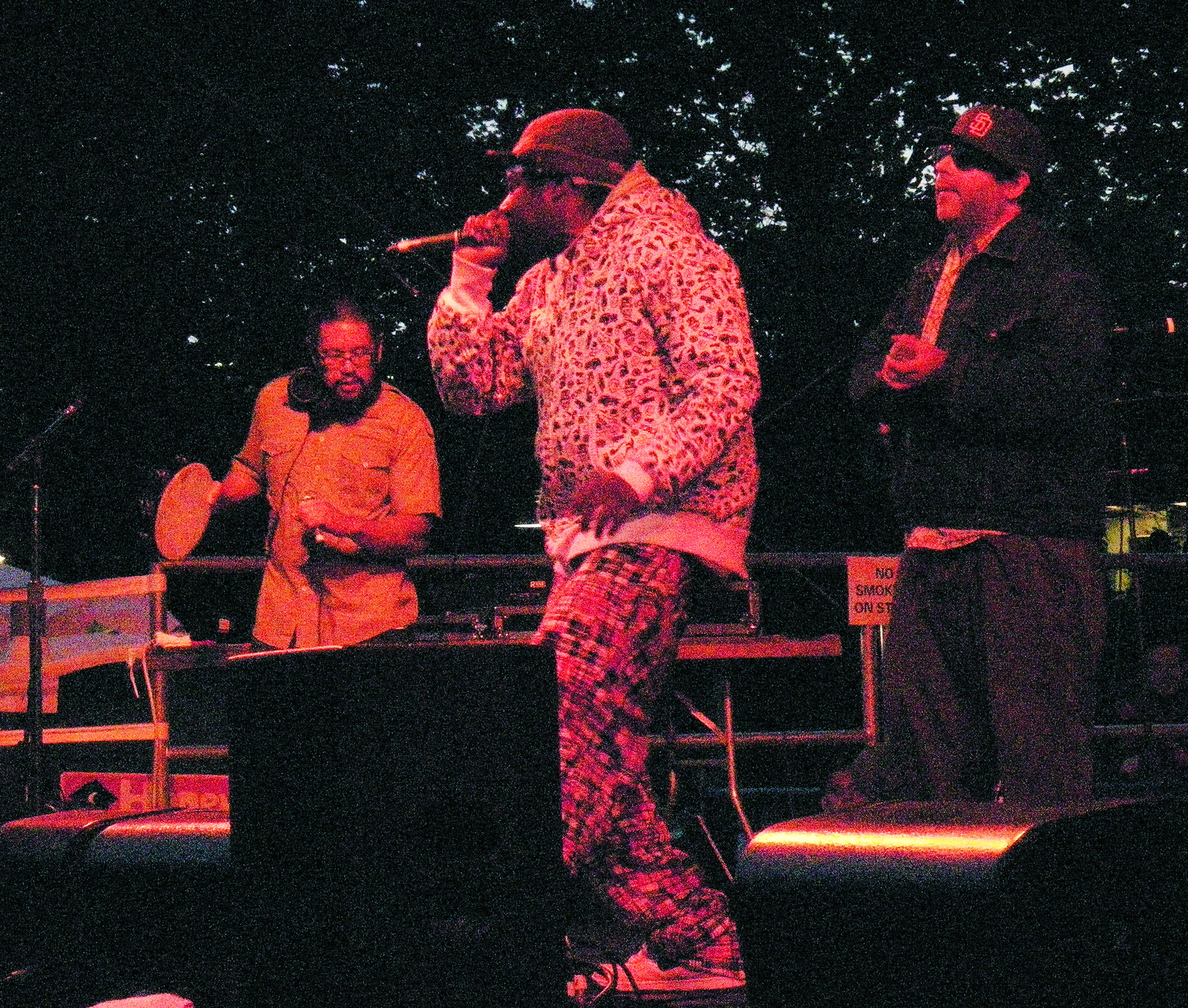 The Saturday Knights performing at Bumbershoot 2008, Seattle Center, Seattle, Washington. Left to right: DJ Suspence (Spencer Manio), Tilson, Barfly.